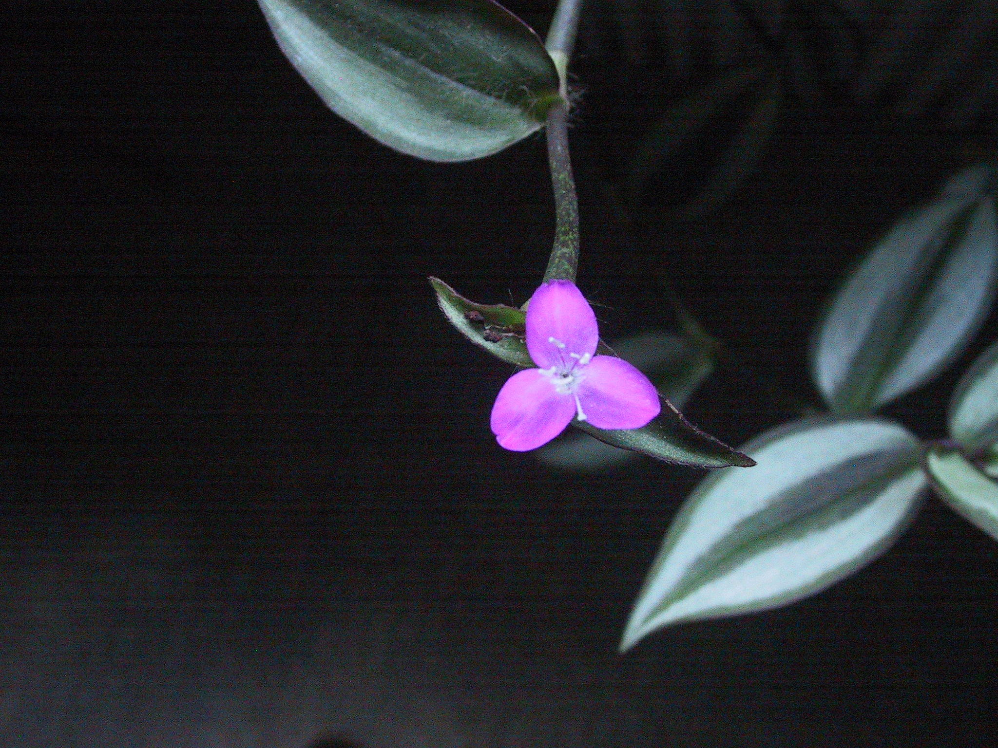 Photo of plant Tradescantia zebrina (formerly Zebrina pendula), showing flower and zebra-stripe leaves.